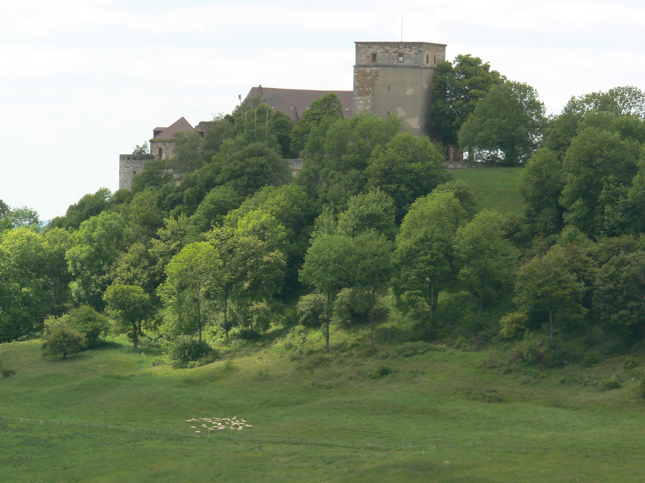 views of Scheßlitz near Bamberg, Germany